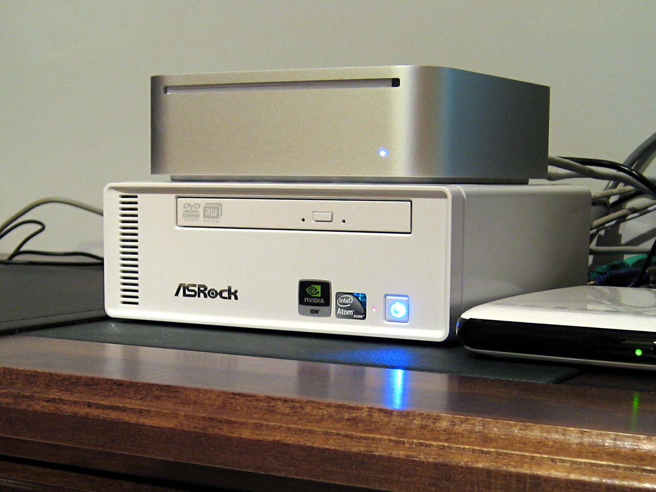 ASRock Ion 330 Nettop (white) underneath a late 2009 Mac Mini (silver). The ASRock Ion Nettop is suitable for a HTPC (home theatre PC) project as it's equipped with NVidia's new Ion chipset enabling high definition (1080) video playback even though the processor is a relatively sluggish low power consumption Intel Atom 330 Dual Core clocked at 1.6 GHz.